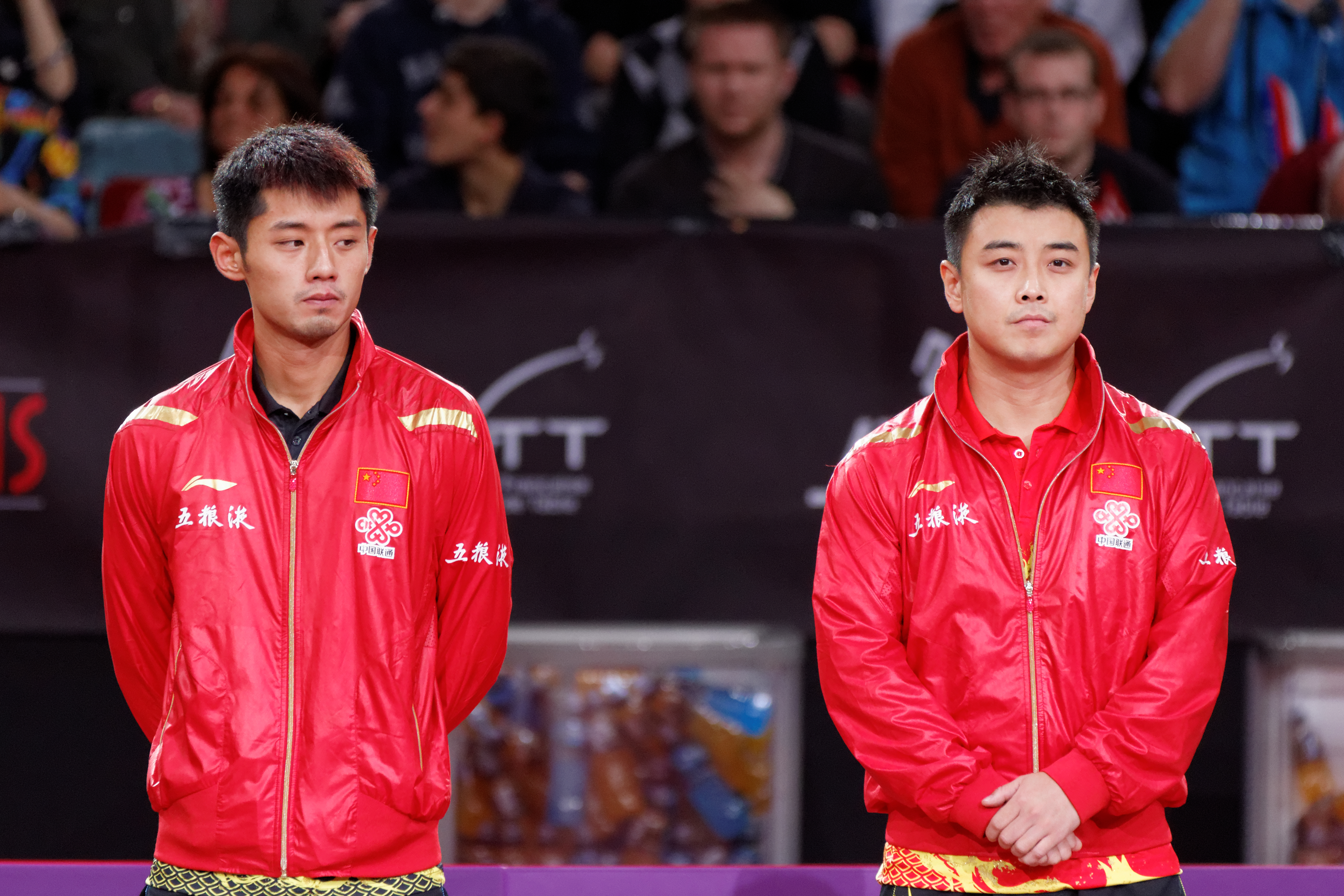 2013 World Table Tennis Championships, Paris.